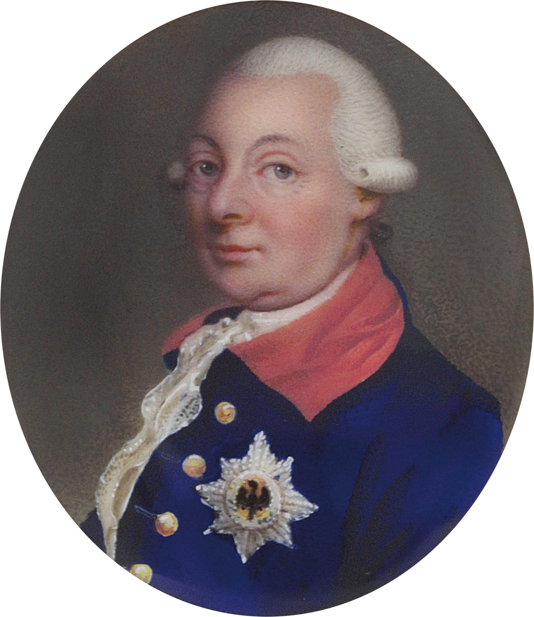 Charles Frederick, 1st Grand-Duke of Baden (1728-1811) when Margrave of Baden-Durlach, in blue coat with brass buttons, red collar, white lace cravat, wearing the breast-star of the Royal Prussian Order of the Black Eagle, powdered wig dressed en queue signed, dated and inscribed on the counter-enamel 'Carl Friederich Margraf zu Baaden, und Hochberg. des Schwartzen adler und Elephanten ordens Ritter. geb: den 22 ten Nov: 1728. J.H Hurter pinxit Carlsruh 1786.' enamel on copper oval, 2 in. (51 mm.) high, gold frame